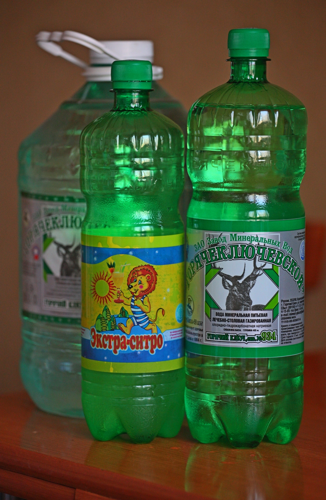 Production of local mineral water factory